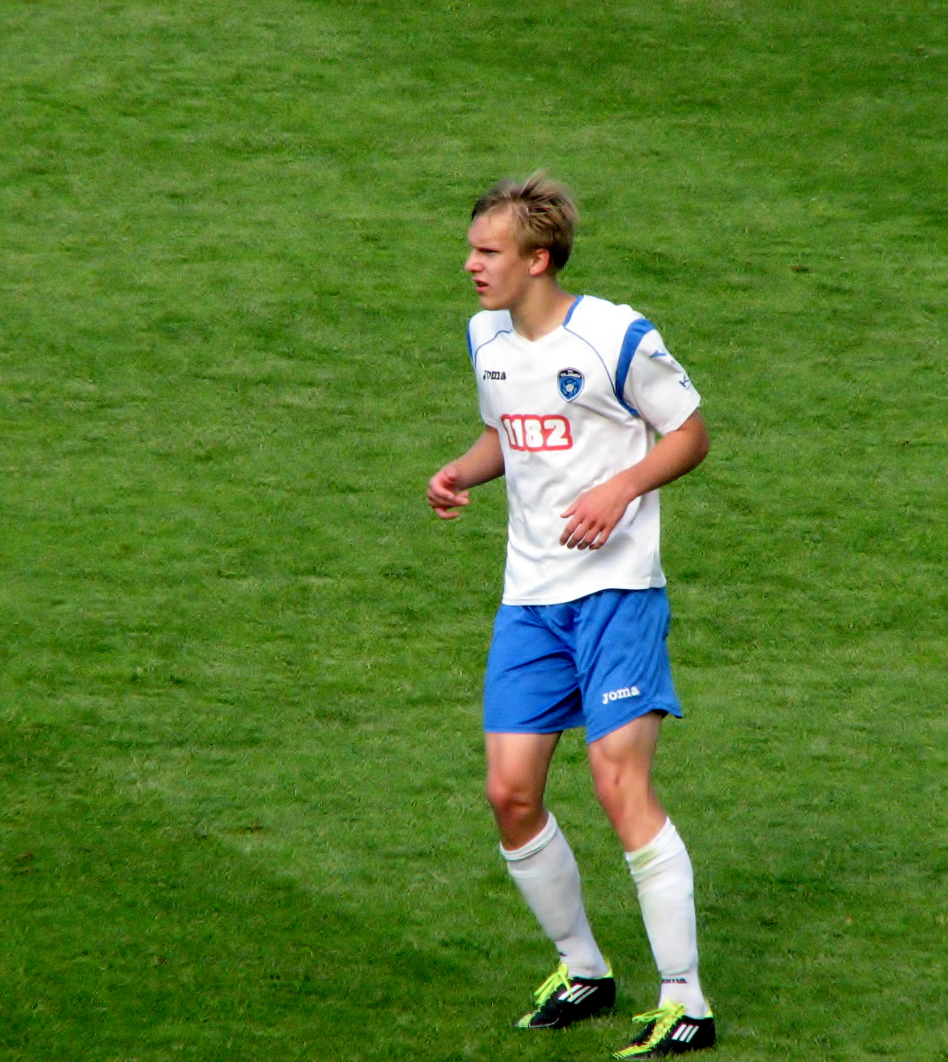 FC Viljandi player Marten Mütt playing against JK Nõmme Kalju